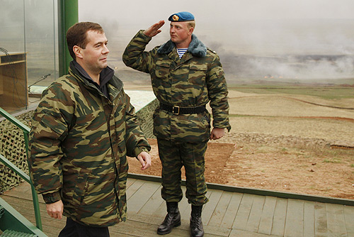 DONGUZ TEST GROUND, ORENBURG REGION. At the strategic operations exercises Centre-2008.